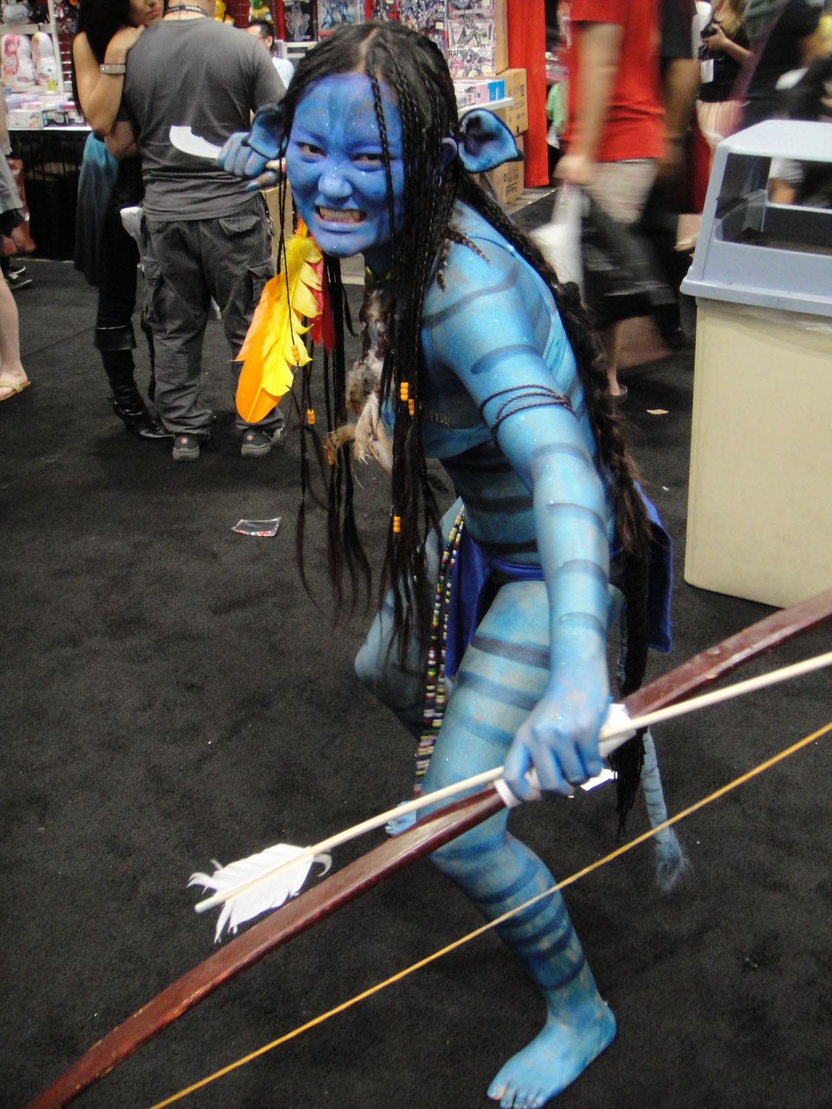 photo 2011 taken by Doug Kline If you're interested in higher resolution versions of my images, contact me via my profile page.